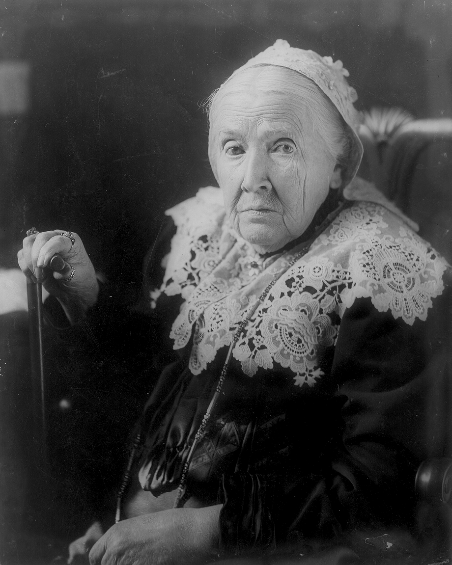 Julia Ward Howe, half-length portrait, seated, facing left